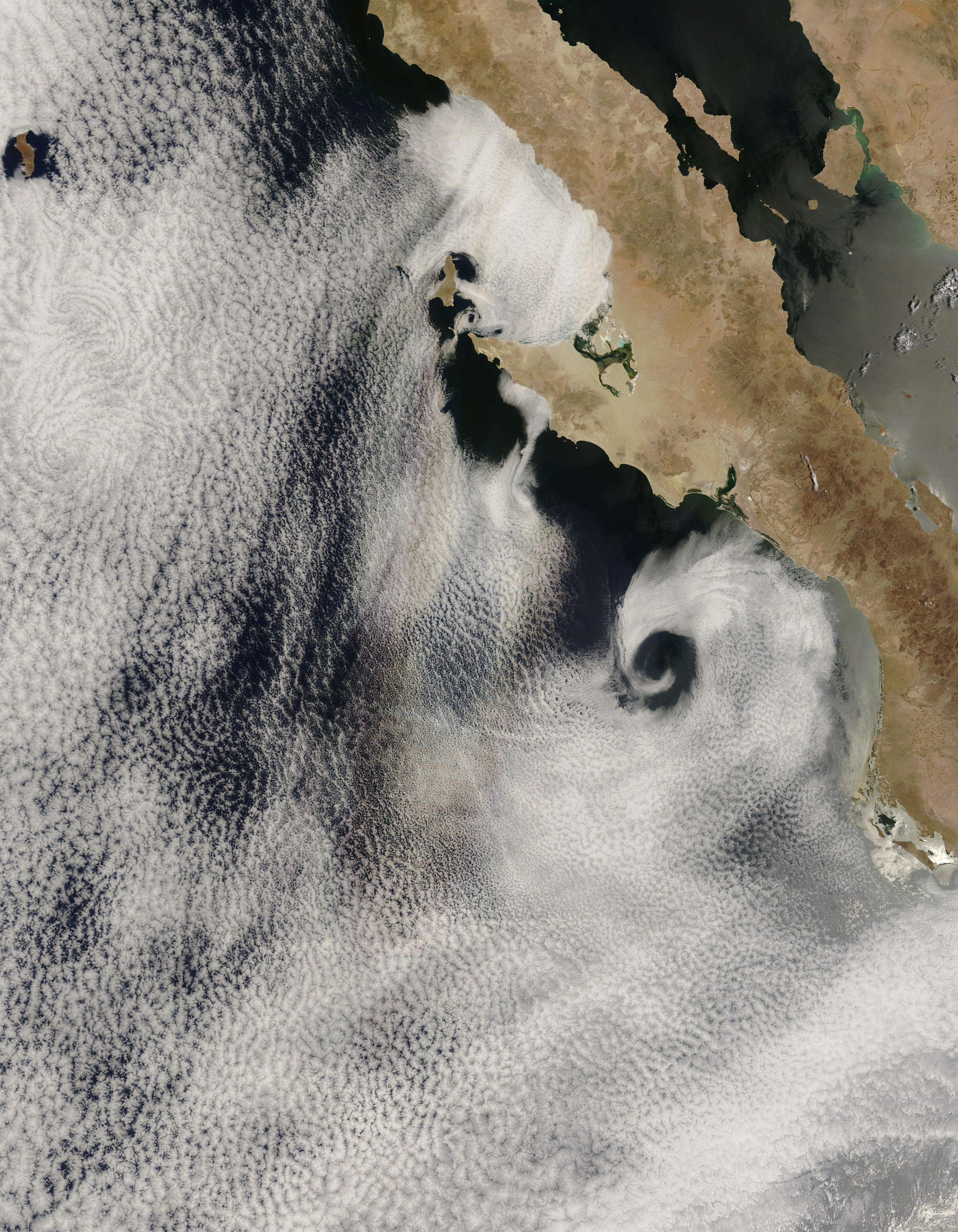 In this image, the swirling clouds known as vortex streets appear along the left edge of the image, stretching southward from Isla Guadalupe. Southeast of the vortex street, a glory, which resembles a rainbow, hovers above the cloud cover. The glory is faint but large, 200 to 300 kilometres long, along a north-south orientation. In this glory, reds and oranges are most visible.